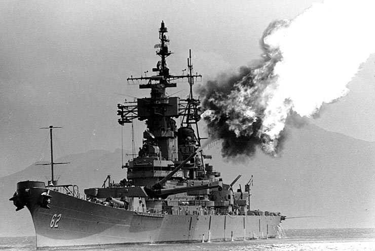 Bombarding enemy targets near Tuyho, on South Vietnam's central coast, during her last line period, late in March 1969. Removed caption read: Photo # NH 90639 USS New Jersey bombarding, off Vietnam, 1969